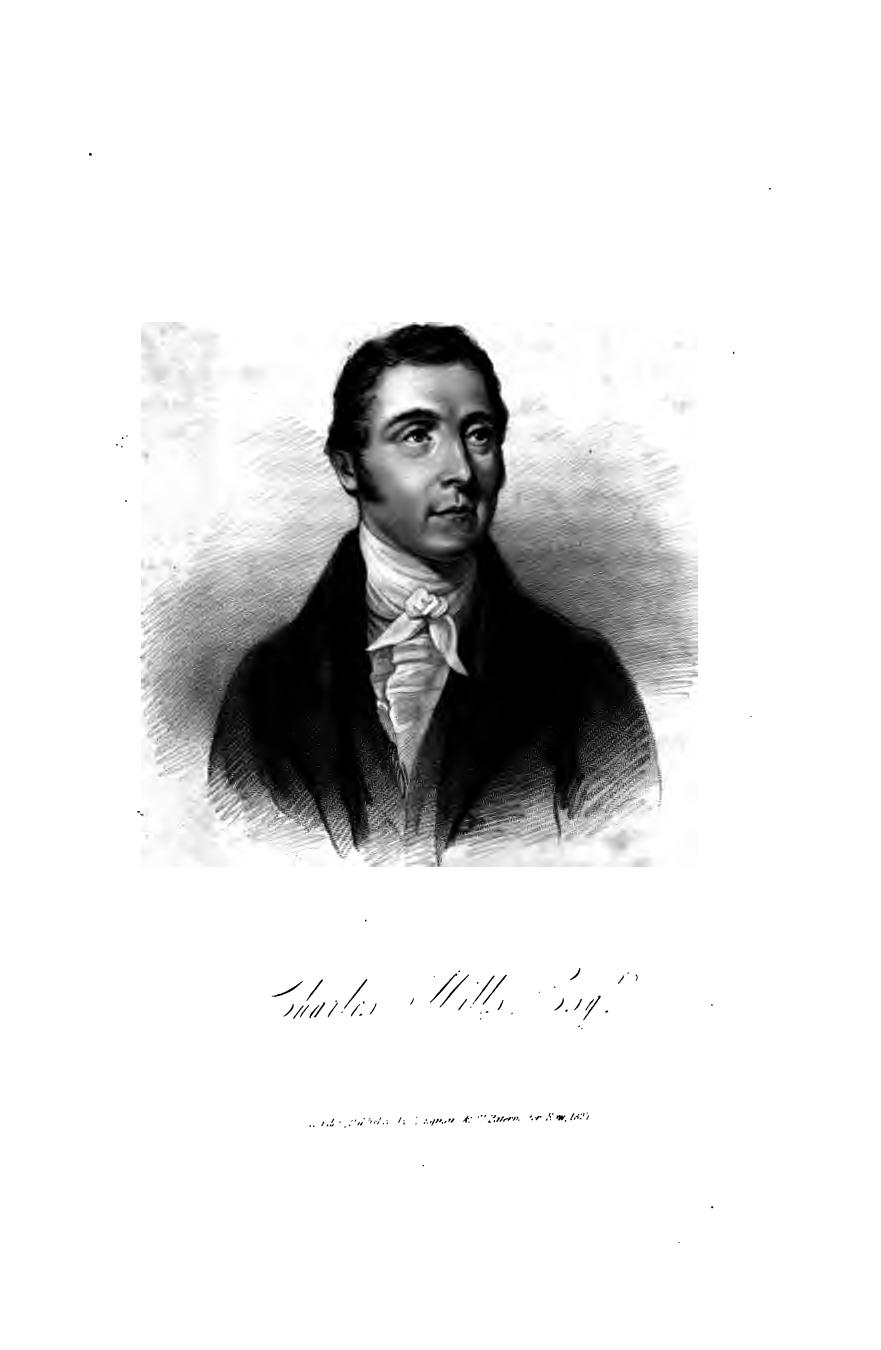 Engraving of a portrait of the English Historian Charles Mills (1788-1826) in Augustine Skottowe: A Memoir of the Life and Writings of Charles Mills. Longman, Rees, Orme, Brown and Green, London 1828. After a bust executed by R. W. Sivier (according to the article on Mills in the ODNB (1894) by Gordon Goodwin).